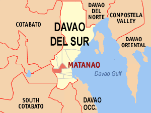 Map of the Davao del Sur showing the location of Matanao